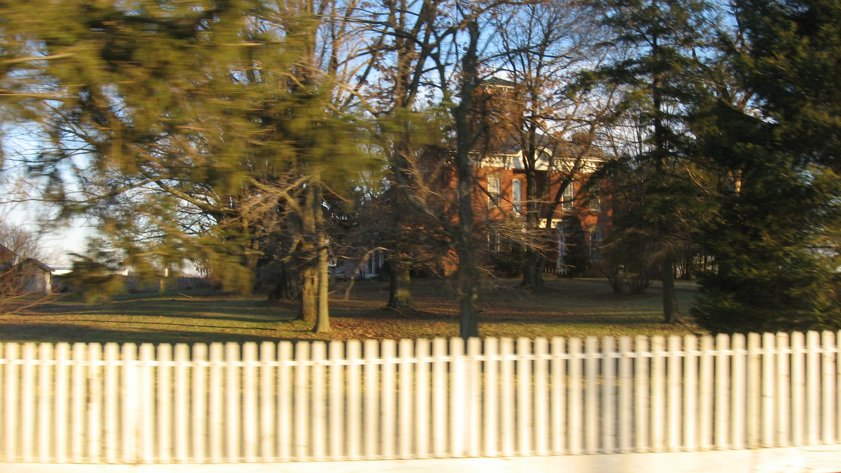 House at the John Gill Farmstead, located at 12310 Lancaster-Newark Road (State Route 37 west of Millersport in Walnut Township, Fairfield County, Ohio, United States. The complex is listed on the National Register of Historic Places.